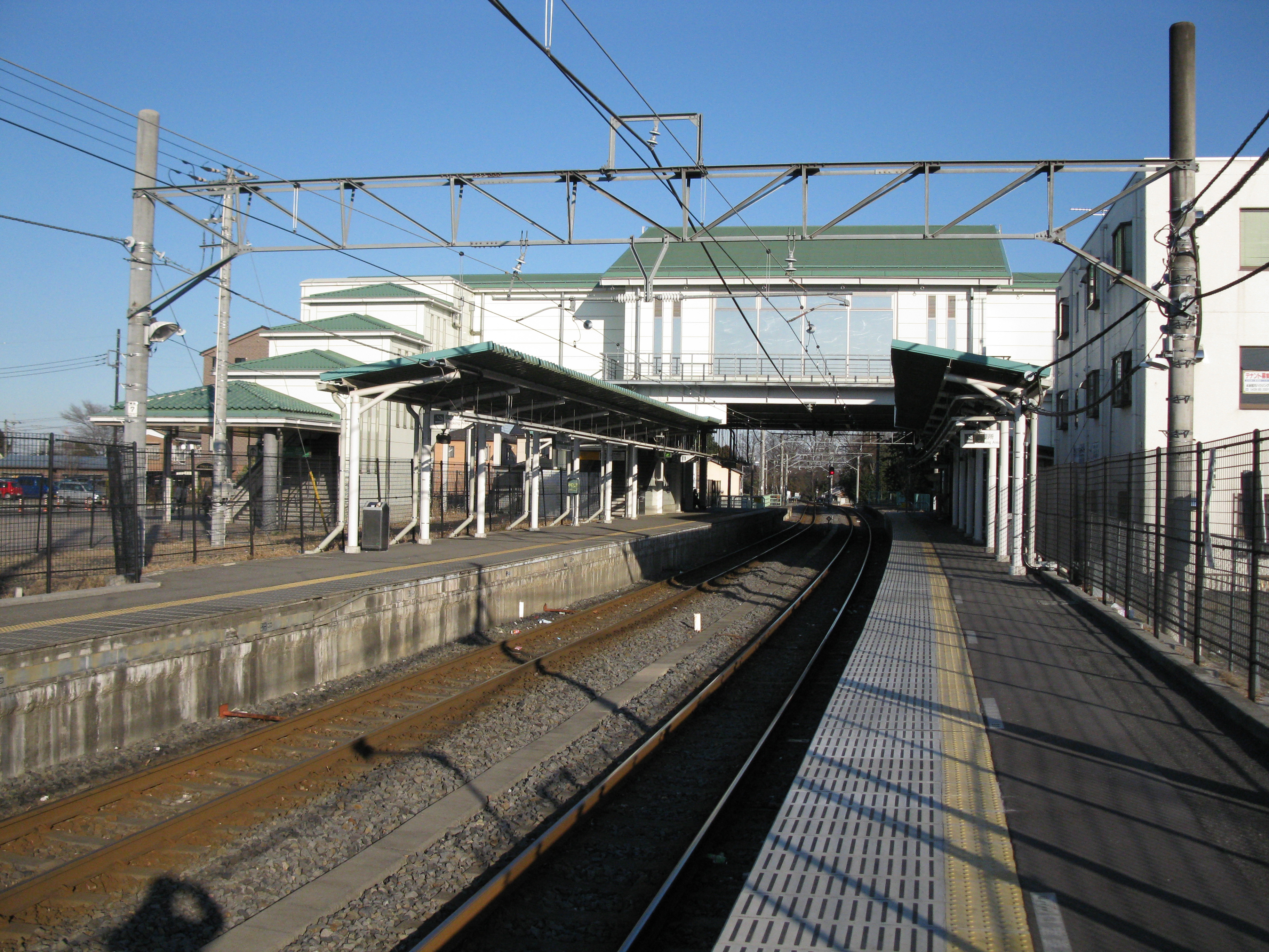 View of the platforms looking east (toward Kawagoe) at Musashi-Takahagi Station on the Kawagoe Line in Hidaka, Saitama